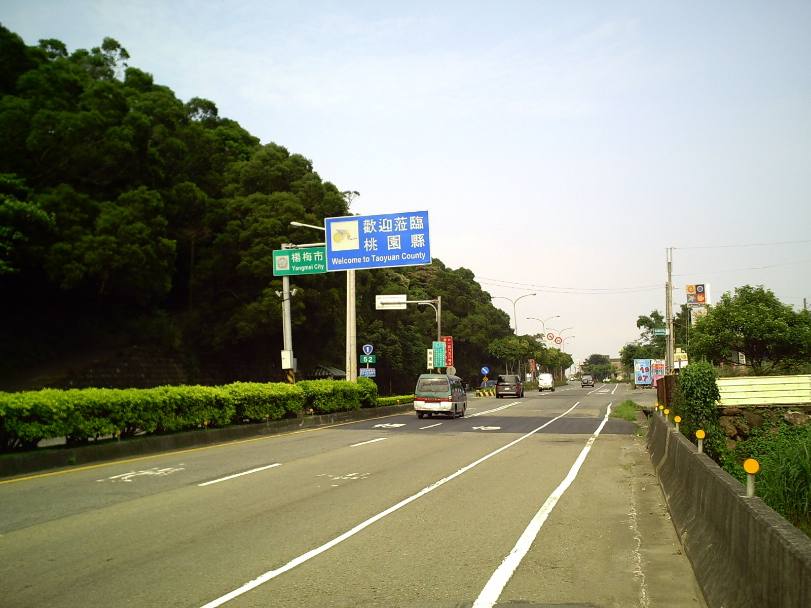 TW PHW1：the border between Taoyuan City and Hsinchu County